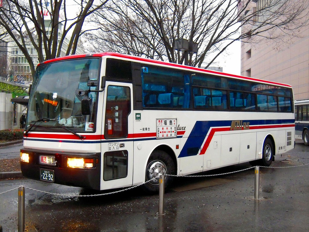 Aizu bus HINO S'ELEGA(U-RU2FTAB,FHI 7HD body)Highwaybus Aizuwakamatsu-Fukushima